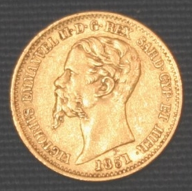 Coin of Victor Emmanuel II as King of Sardinia, 1851